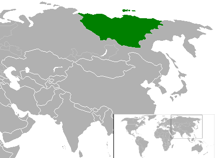 Location of the Sakha Republic